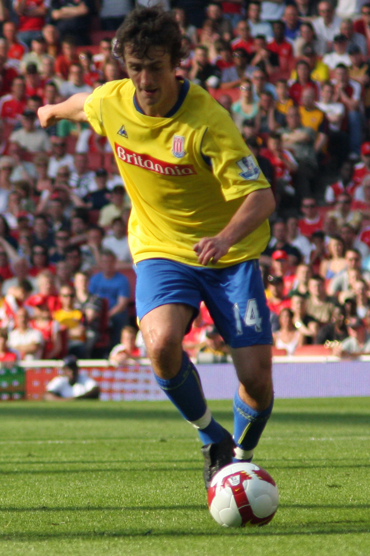 Arsenal v Stoke City FC - Danny Pugh